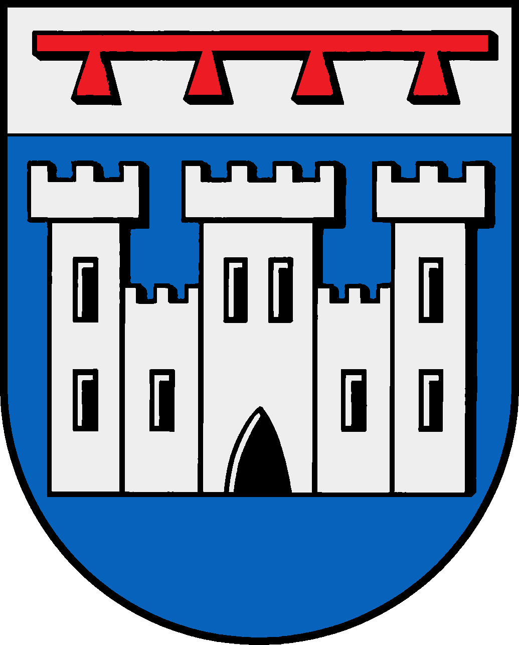 Coat of arms of the municipality Ritzerau in Schleswig-Holstein, Germany.